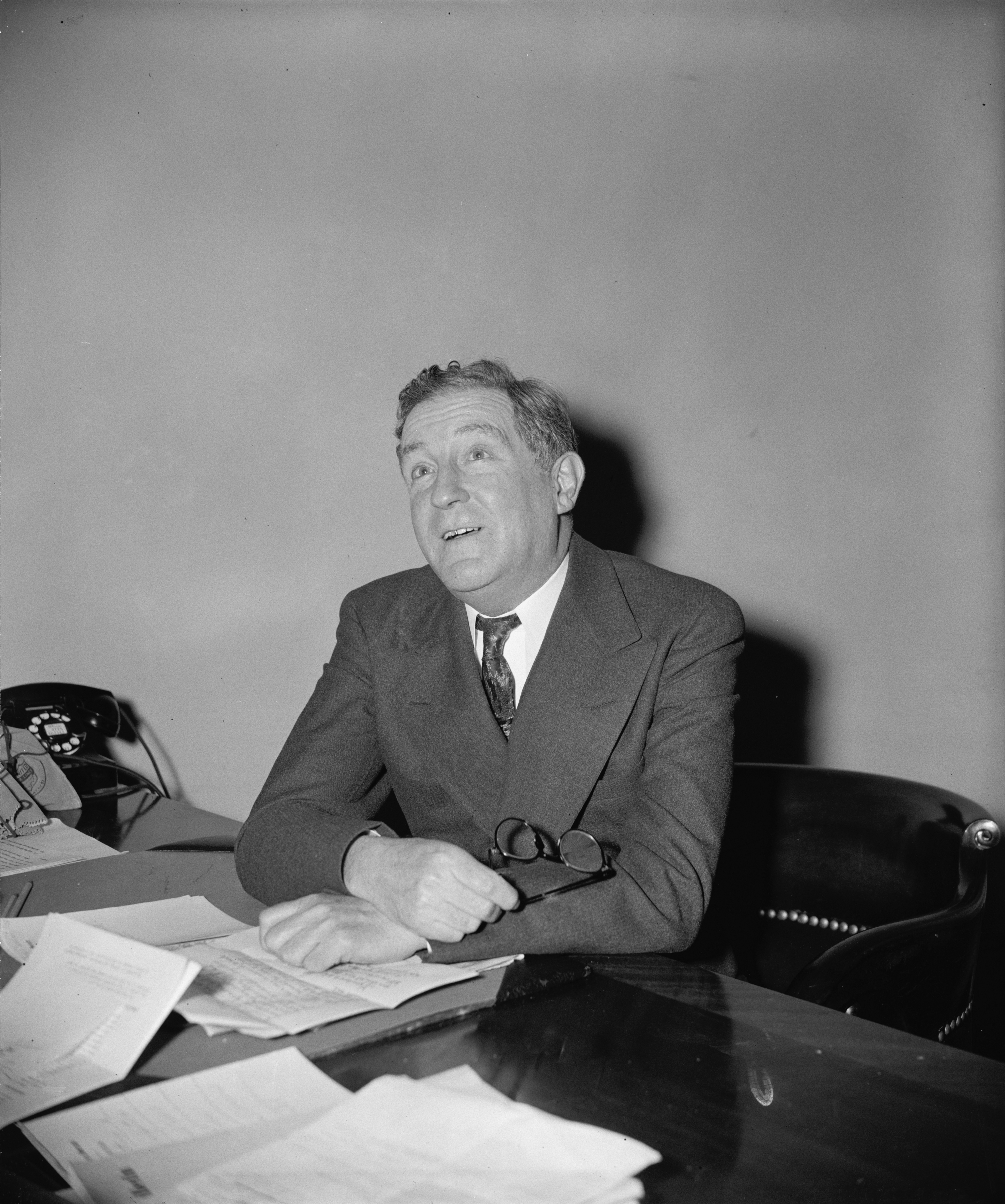 Title: Senator Sheridan Downey, Calif., 1940 Abstract/medium: 1 negative : glass ; 4 x 5 in. or smaller